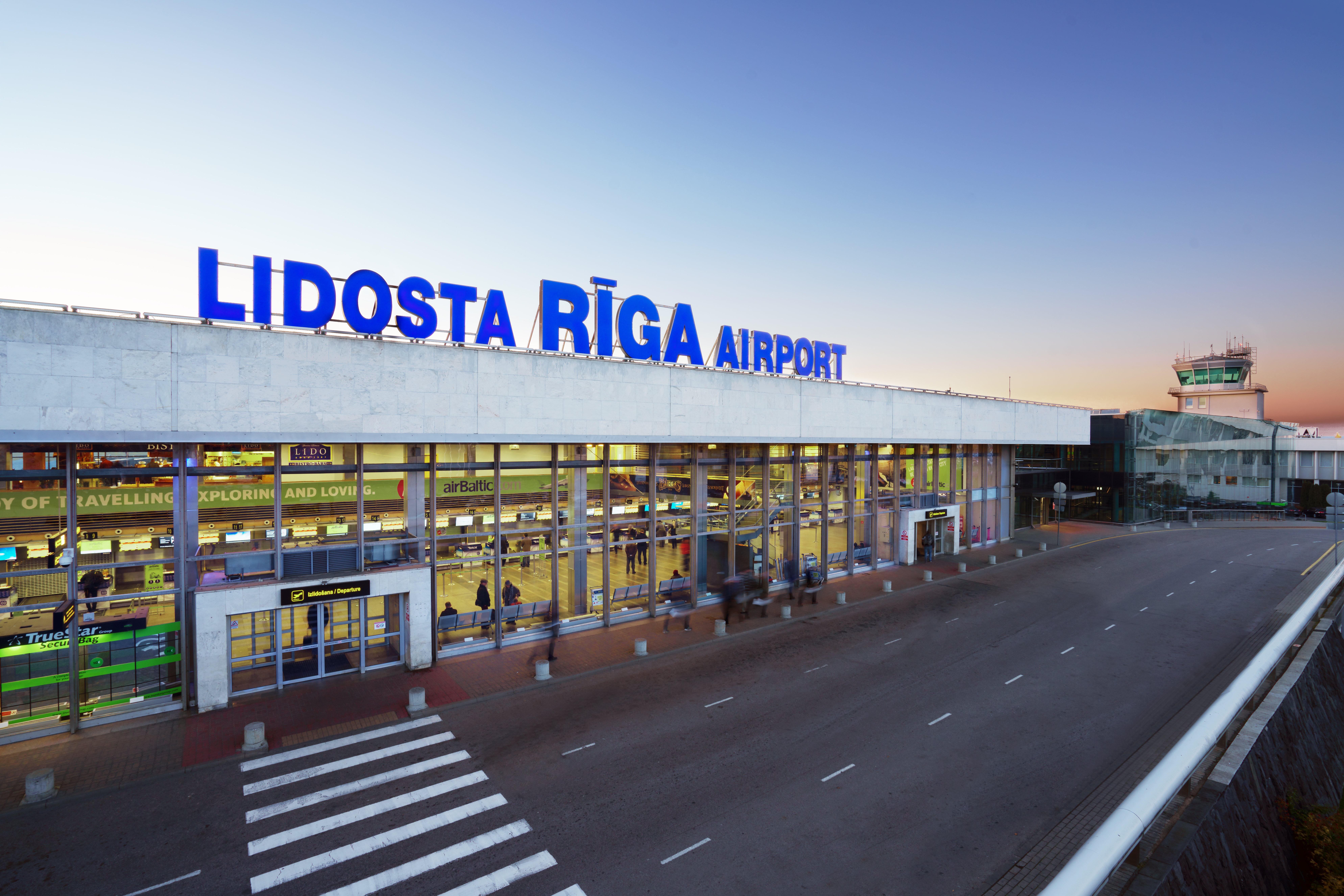 Riga International Airport, Latvia - The airport terminal has the head office of AirBaltic